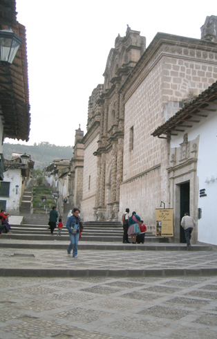 City of Cajamarca, Peru. Photo by J. Stander - public domain